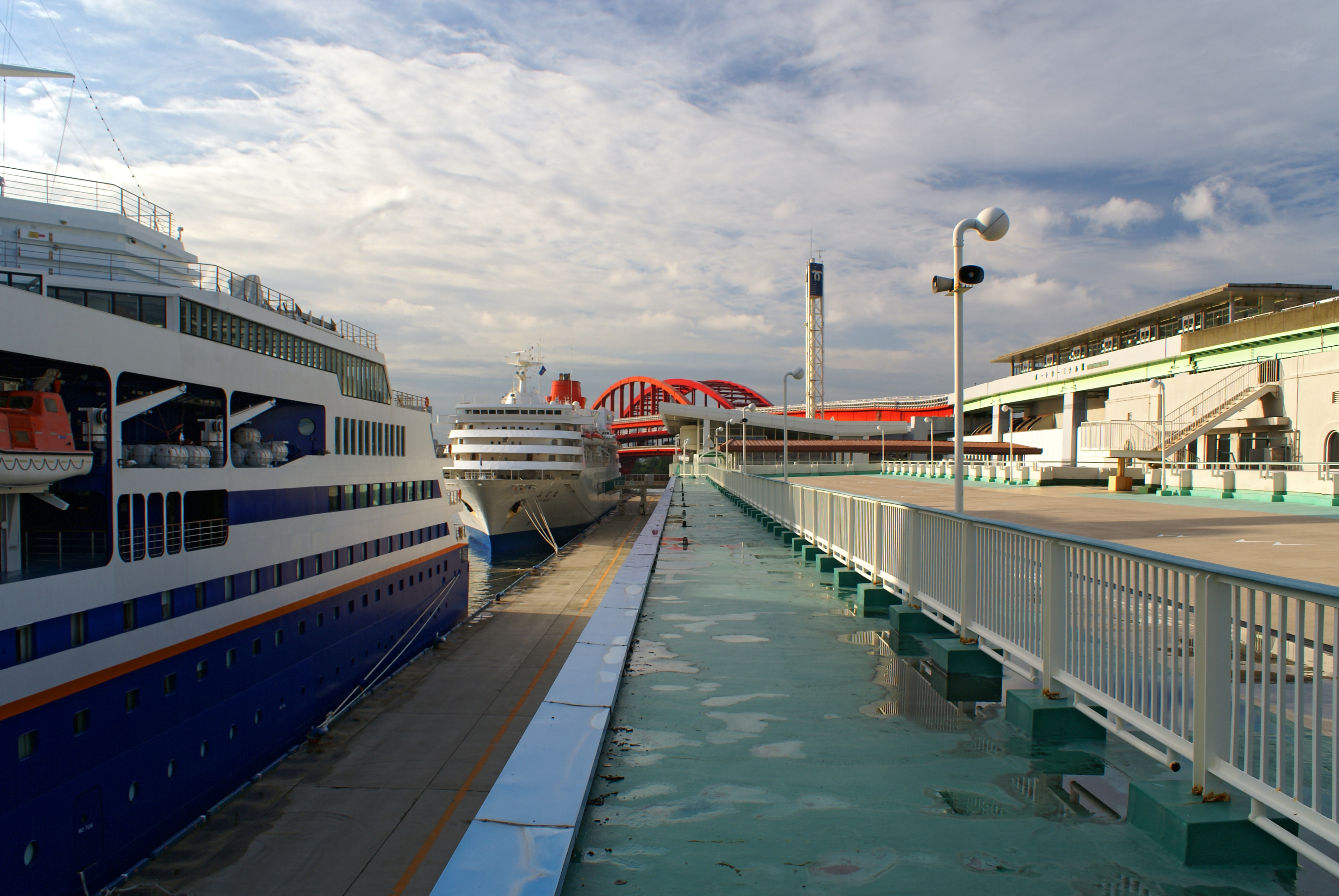 Port Terminal Station and "Kobe Port Terminal" of the Kobe harbor, in Kobe, Hyogo, Japan